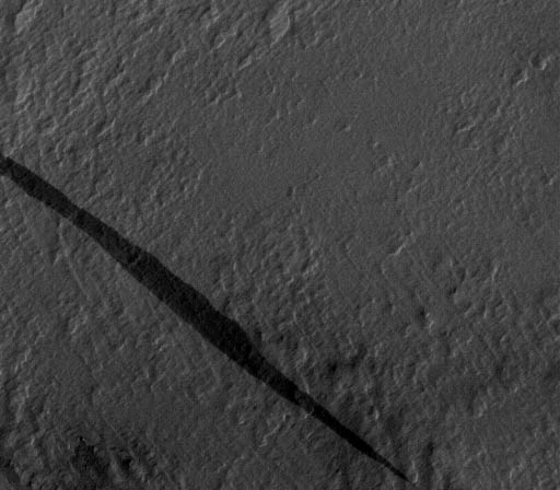 Closeup of slope streak from MOC-N/A